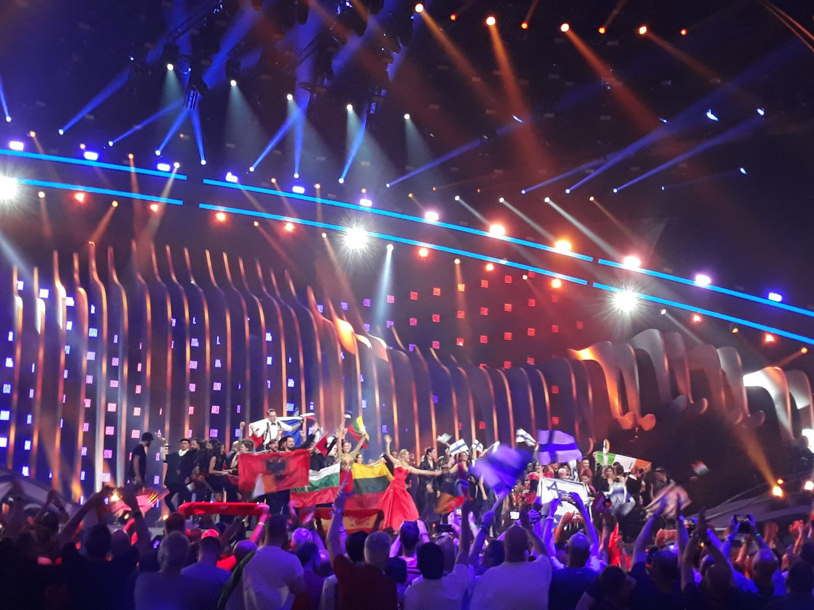 The 10 qualifiers from the 1st semifinal of the Eurovision Song Contest 2018